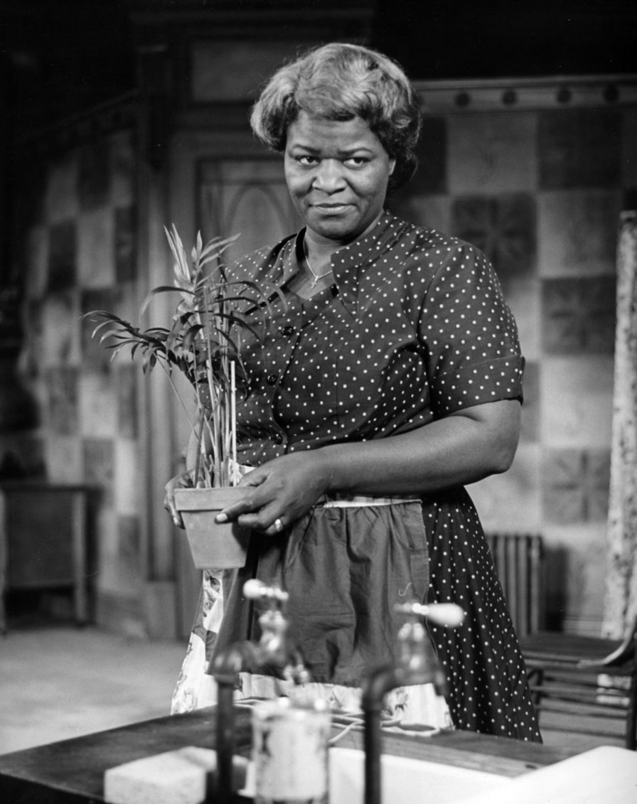 Photo of Claudia McNeil as Lena Younger from the play A Raisin in the Sun.